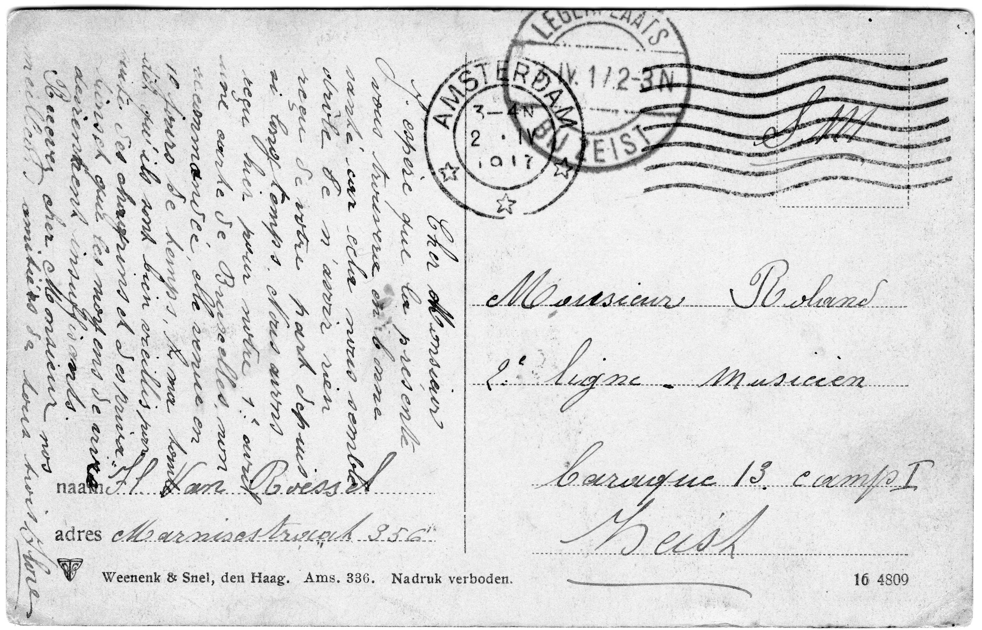 Postcard posted from Marnixstraat 356-I, Amsterdam (Name: Van Roessel) to Monsieur Roland at: 2e ligne - Musicien, baraque 13, camp I, Zeist. (Netherland). Has the militairy stamp of: Legerplaats bij Zeist. Language text in French. Militairy post is free. In the letter the writer talks of having received a letter from Brussels and there is misery there. (German occupation in 1917)